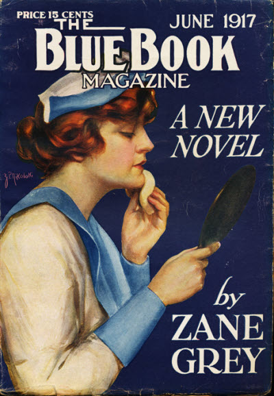 Blue Book Magazine, June 1917